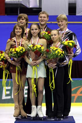 The pairs podium at the 2007-2008 Junior Grand Prix Final. From left: Ksenia Krasilnikova / Konstantin Bezmaternikh (2nd), Vera Bazarova / Yuri Larionov (1st), Ekaterina Sheremetieva / Mikhail Kuznetsov (3rd).